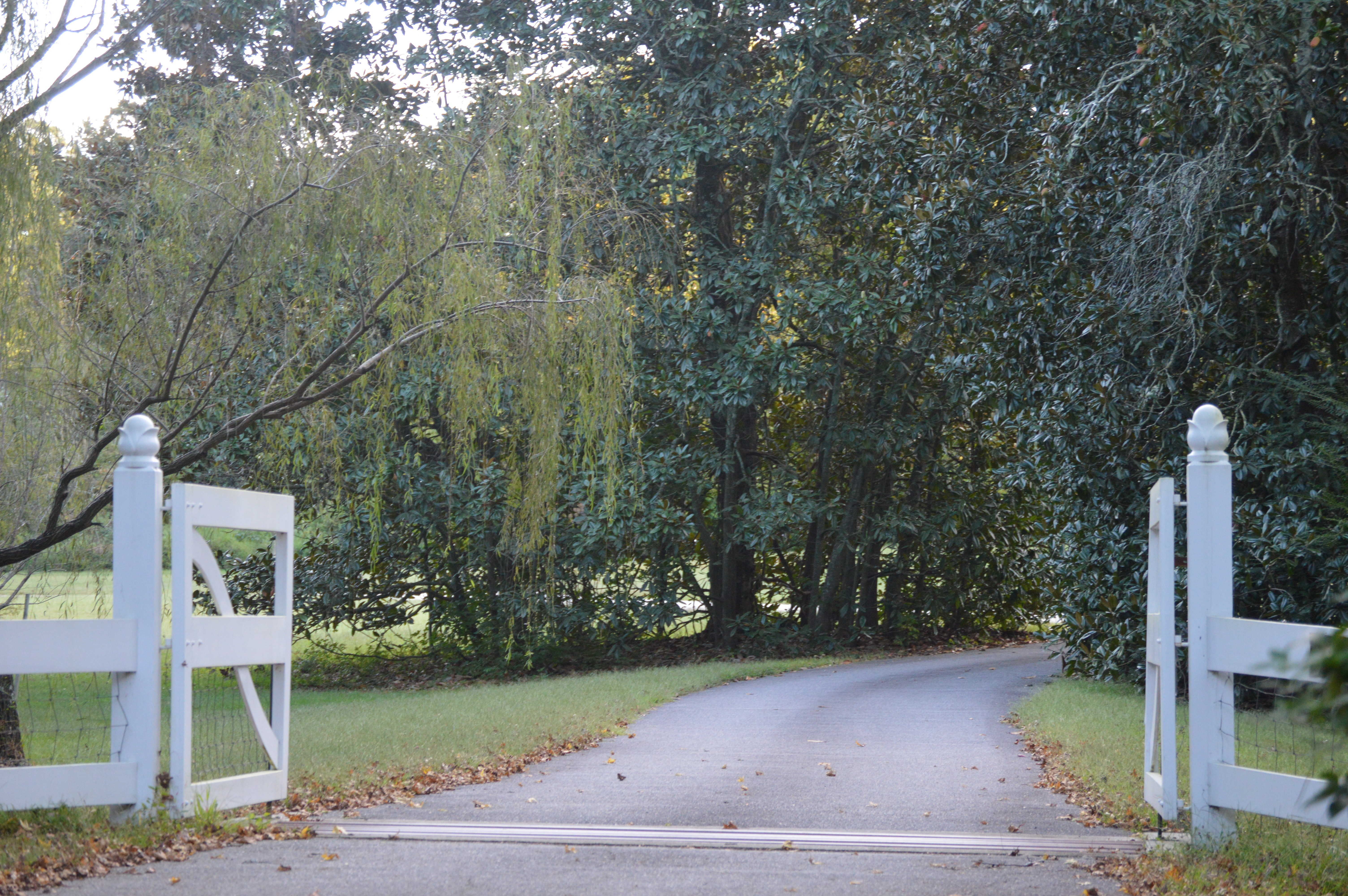 Driveway to the Beechwood estate, located on Governor Darden Road northeast of Courtland in Southampton County, Virginia, United States. The estate is listed on the National Register of Historic Places.